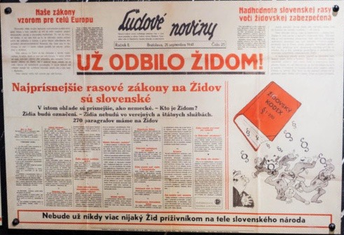 An issue of the propaganda ministry's periodical, Ľudové noviny, 21 September 1941, addressing the so-called Jewish Code. The main header reads: "Už odbilo Židom: Najprísnejšie rasové zákony na Židov sú slovenské" ("We've dealt with the Jews; the strictest anti-Jewish law is Slovakia's"). Other headers include "Nadhodnota slovenskej rasy voči židovskej zabezpečená" "Naše zákony vzorom pre celú Európu" ("Our laws a model for all of Europe") "Nebude už nikdy viac nijaký Žid príživníkom na tele slovenského národa" See here and here (pg. 6).